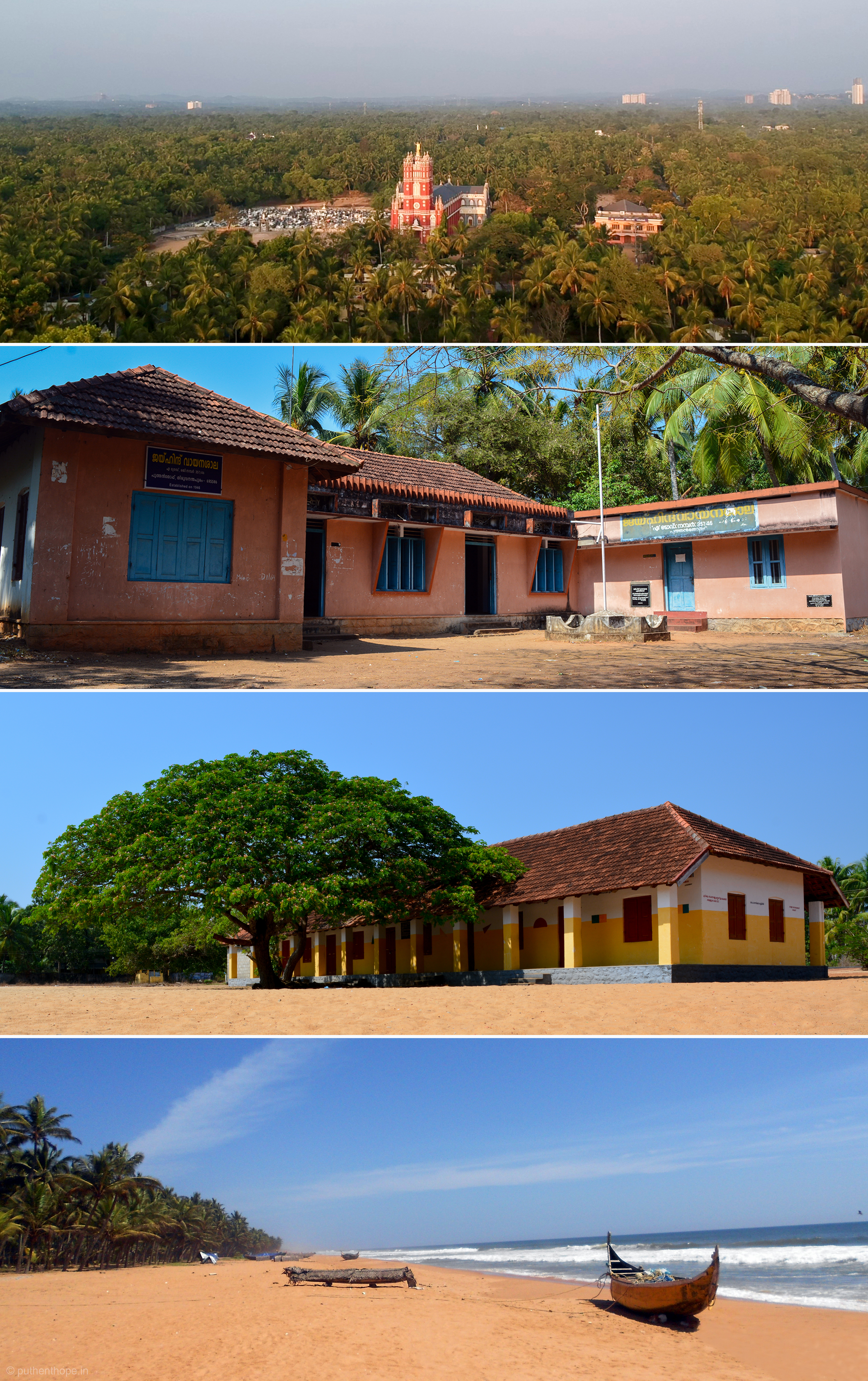 file1 - Puthenthope file2 - Jaihind Vayanasala file3 - St Ignatius UP School file3 - Puthenthope Beach